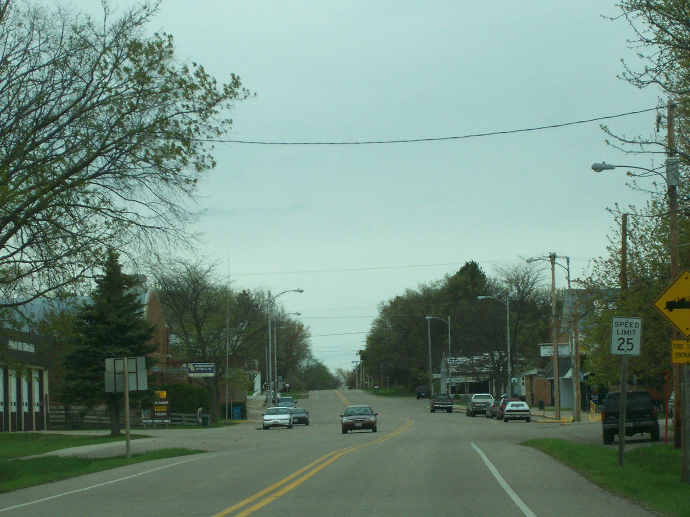 Looking north at Almond, Wisconsin, USA.